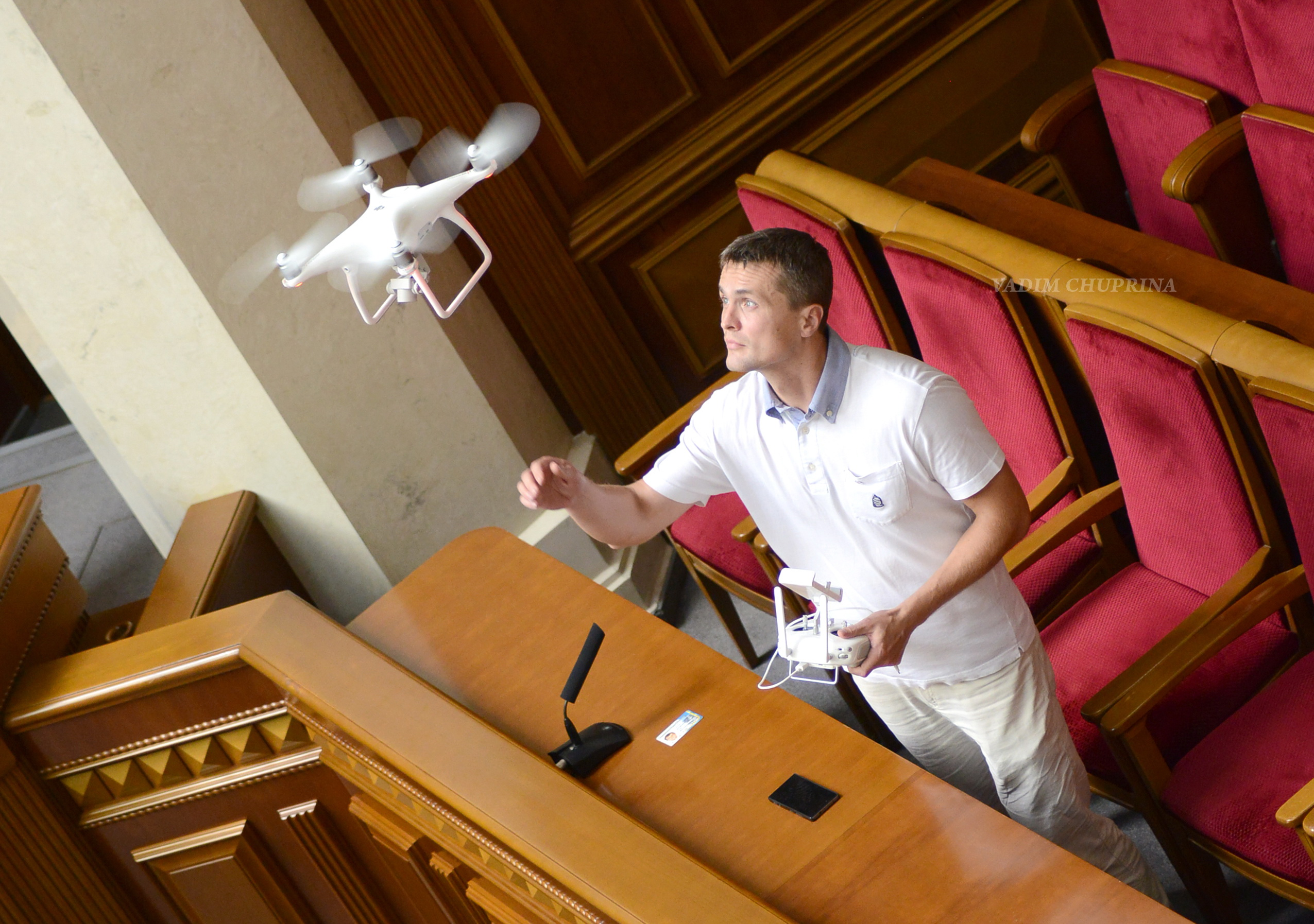 PARLIAMENT OF UKRAINE 2016 ,Ihor Lutsenko (journalist)